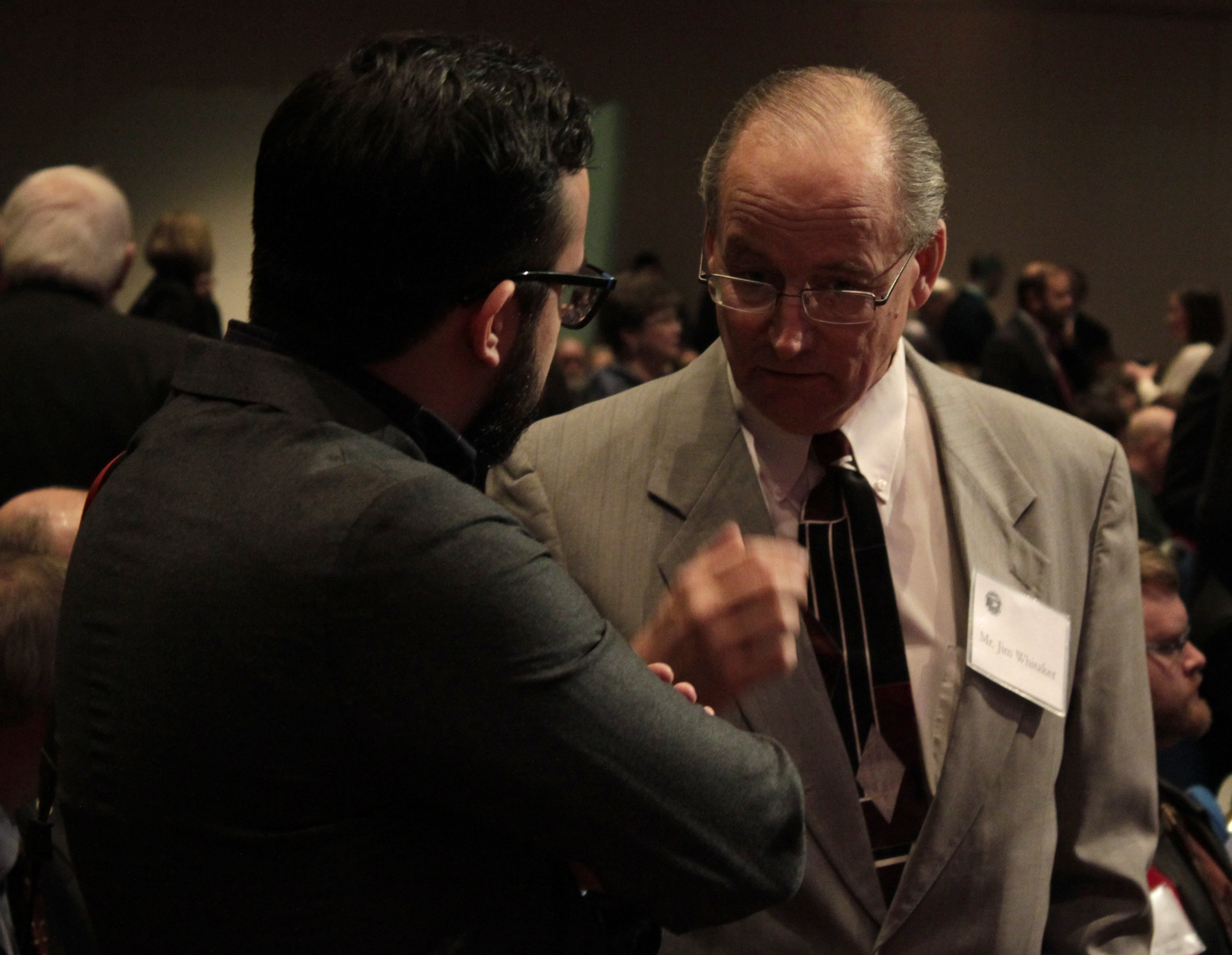 Fairbanks Daily News-Miner reporter Matt Buxton speaks to Jim Whitaker, chief of staff for Alaska Gov. Bill Walker, shortly before Walker's inauguration Monday, Dec. 1, 2014 in Juneau, Alaska's Centennial Hall. (James Brooks photo)